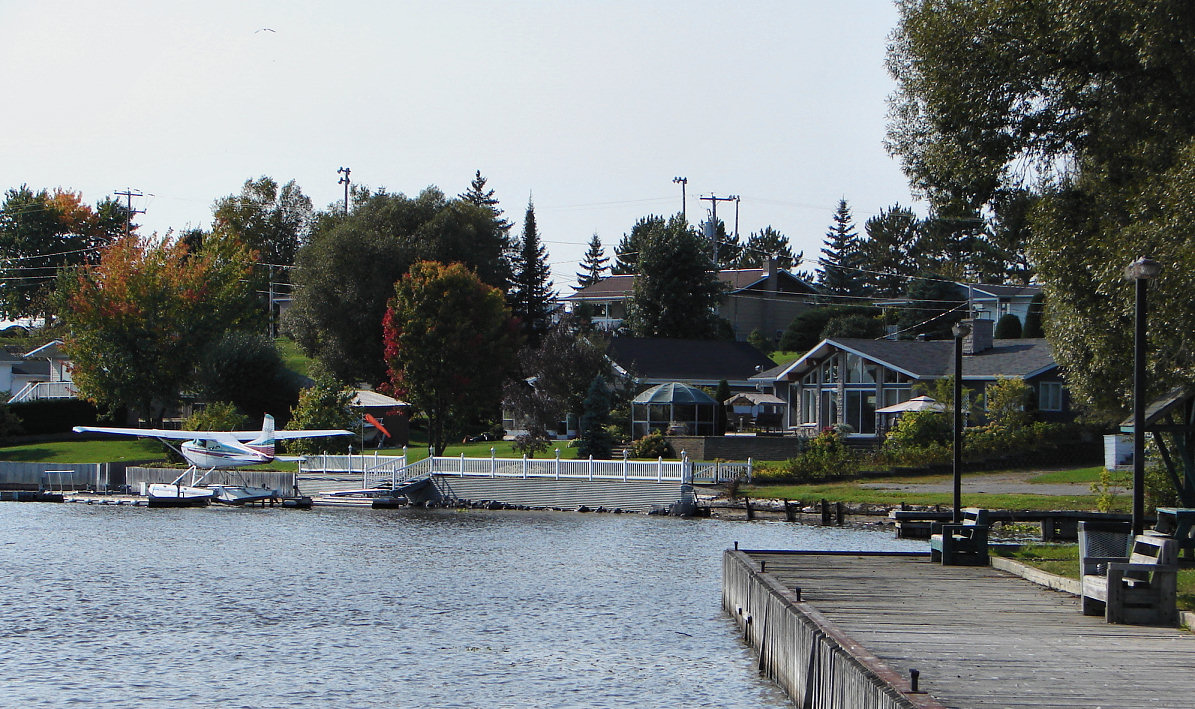 Lake Timiskaming waterfront in Notre-Dame-du-Nord, Quebec